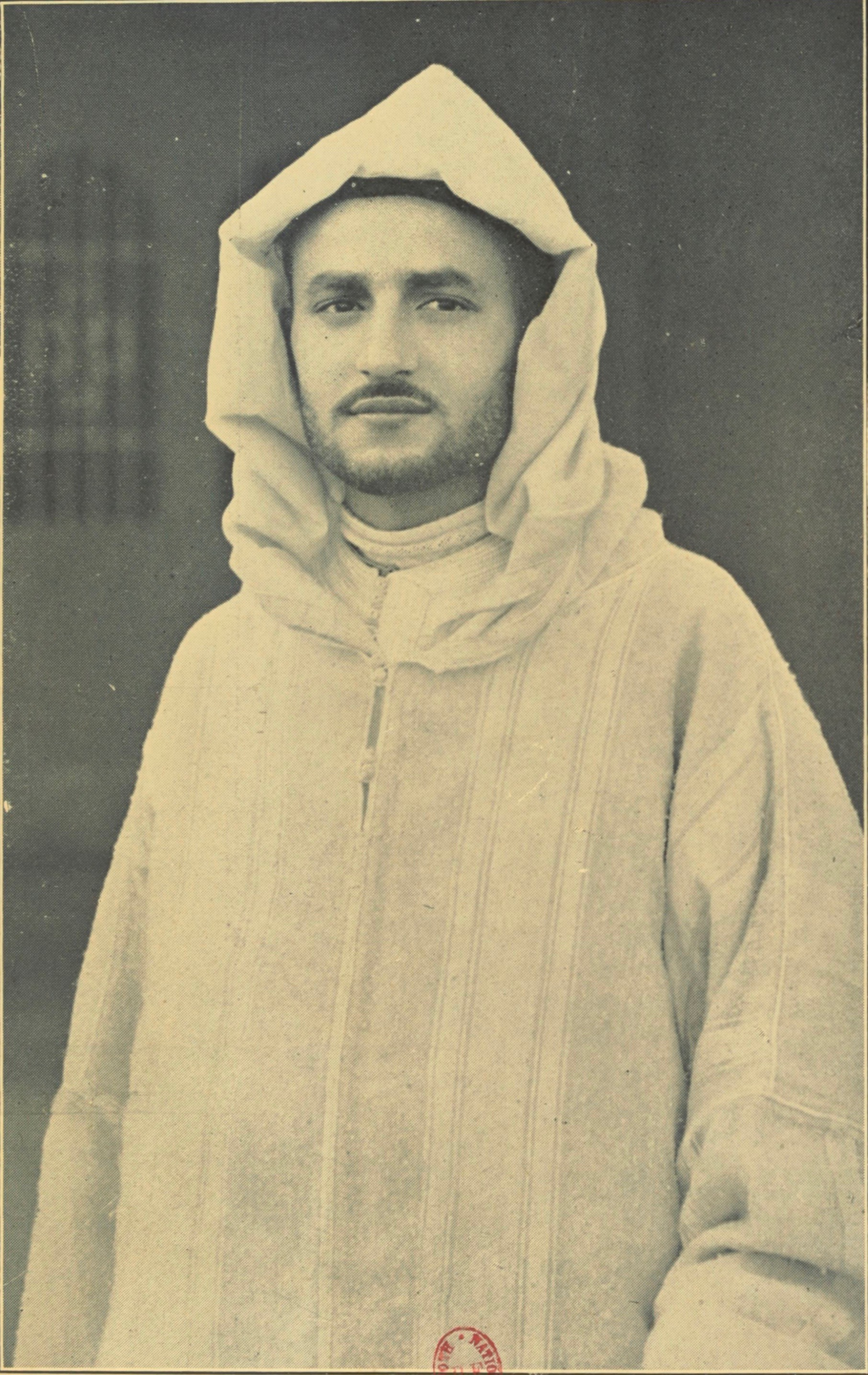 Sultan Muhammad V of Morocco, image published 1934, in "Annuaire des fonctionnaires et de l'armée : tout le Protectorat de la République française au Maroc " page 17